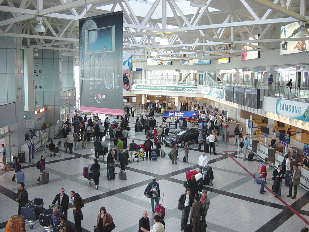 Departure Hall at Ferihegy Airport